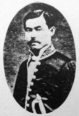 a Japanese man 福地源一郎 (Genichiro Fukuchi)